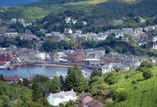 View of Oban from Druim Mor.